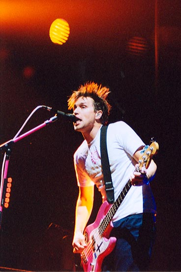 Mark Hoppus of Blink 182